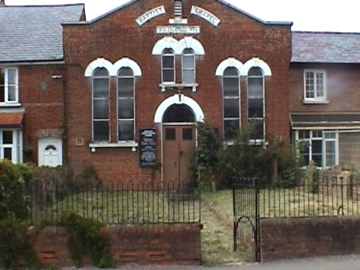 The front shot of the Bierton Baptist Chapel 2005